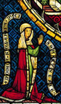 Catherine of Savoy (1284-1336)